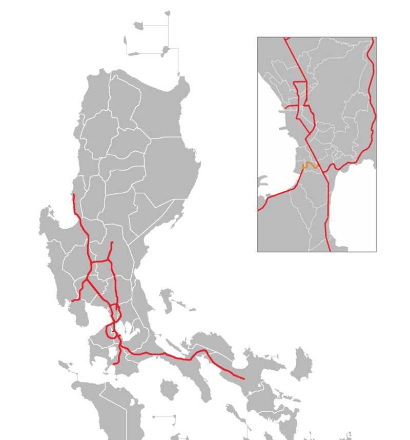 NAIAx map (orange)